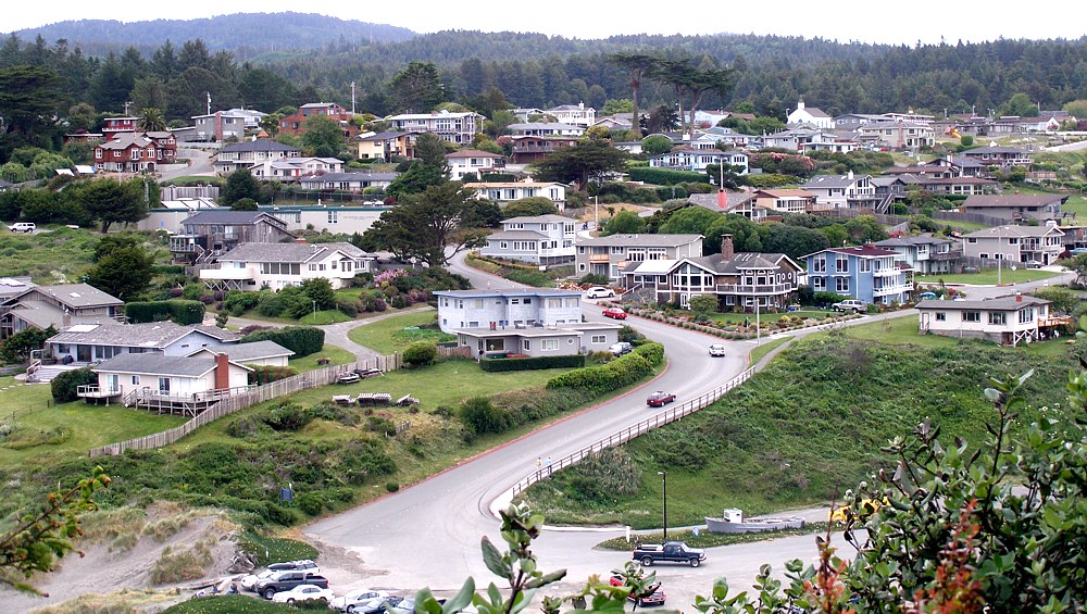 The coastal town of Trinidad, as viewed from a trail on nearby Trinidad Head.